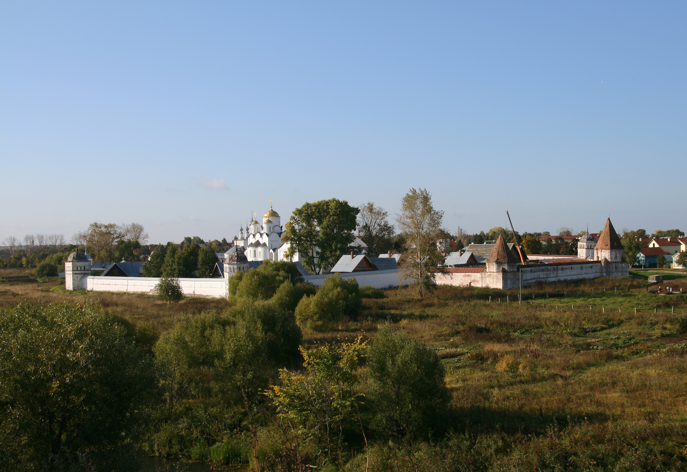 Convent of Intercession, Suzdal